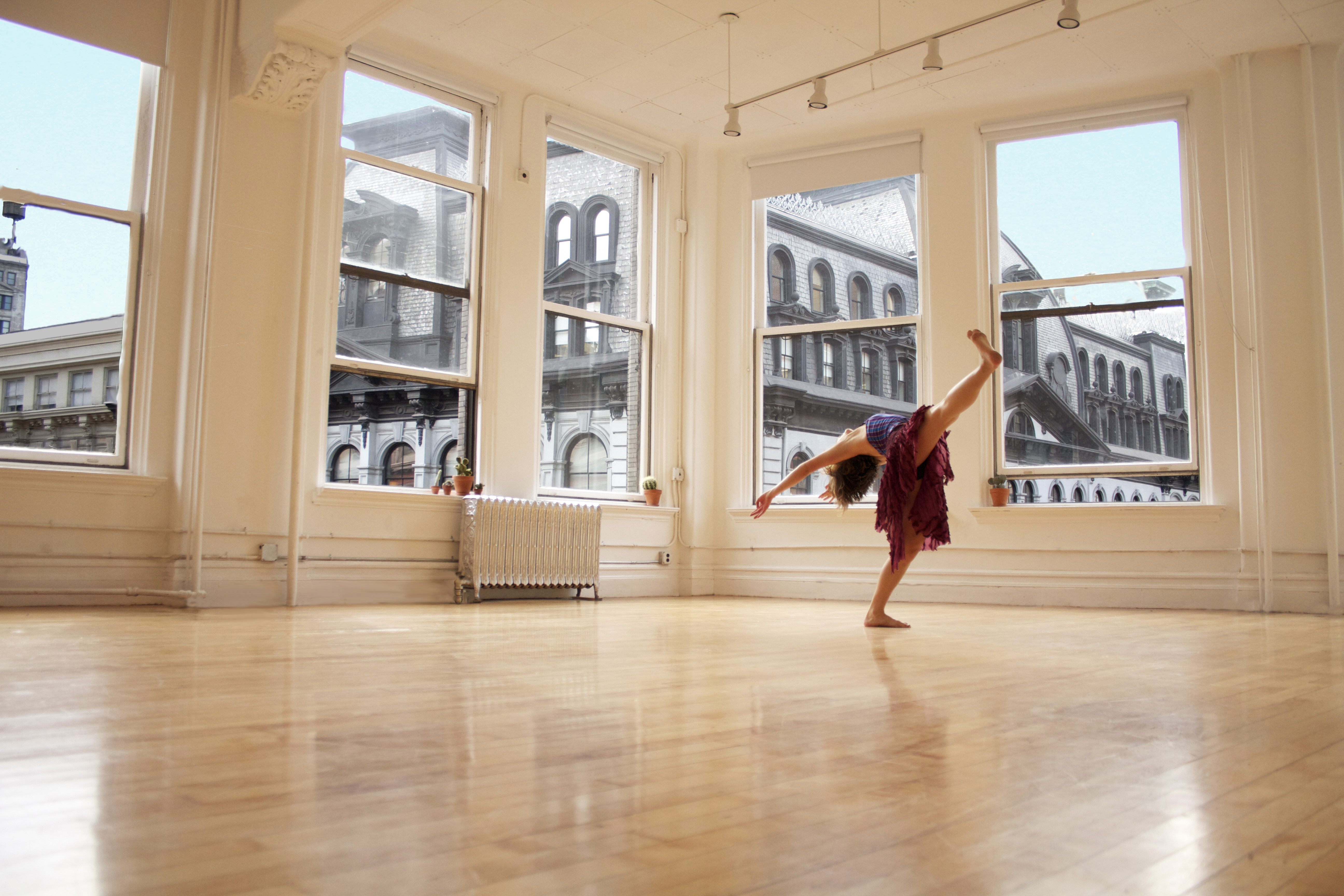 Gibney Dance Company dancer in Studio 2